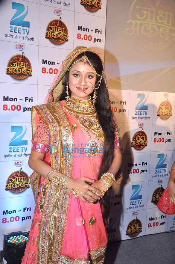 Paridhi Sharma at launches of ‘Jodha Akbar’